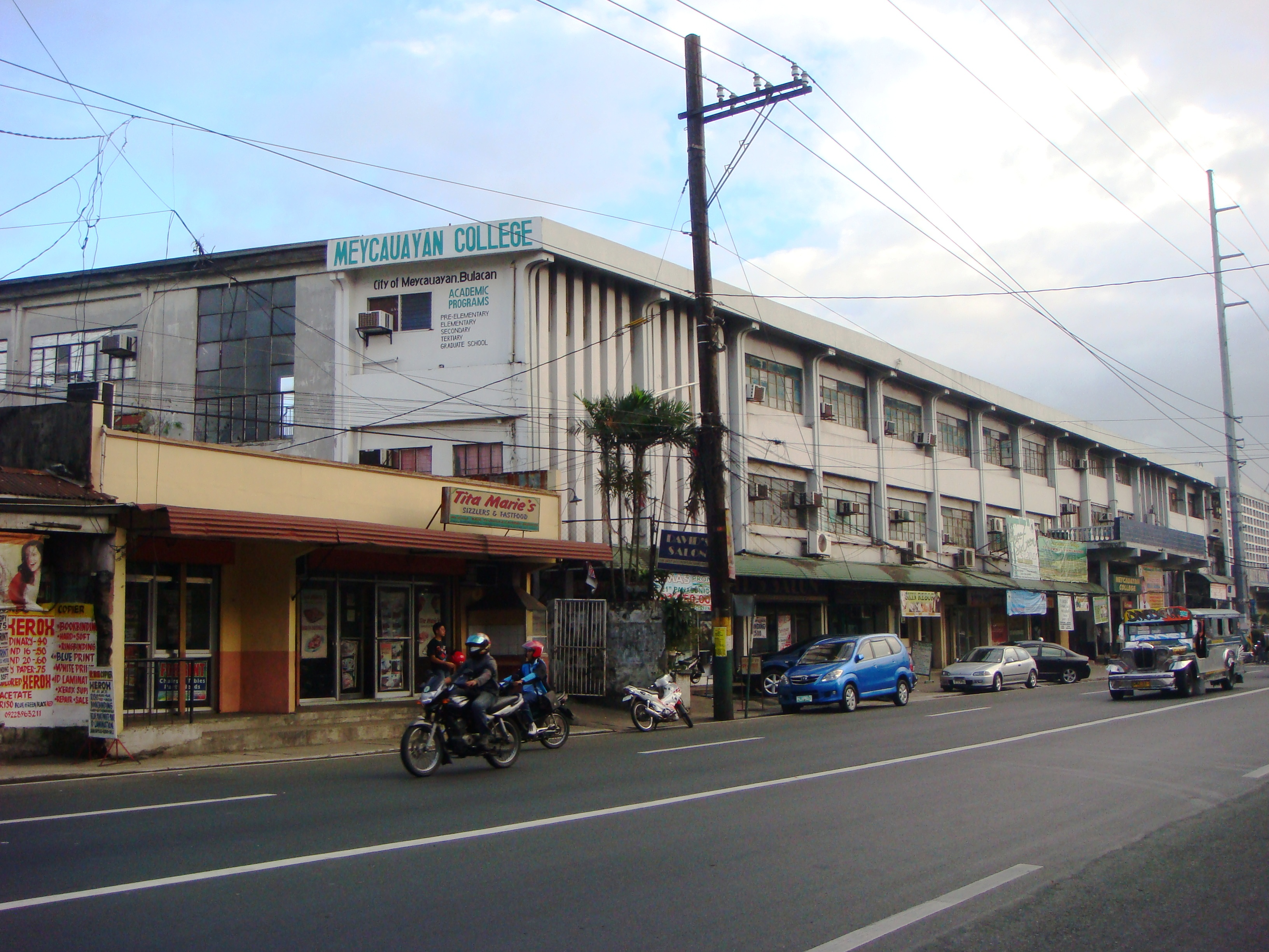 Meycauayan College (since June 1925, formerly known as Meycauayan Institute, McArthur Highway)[1]